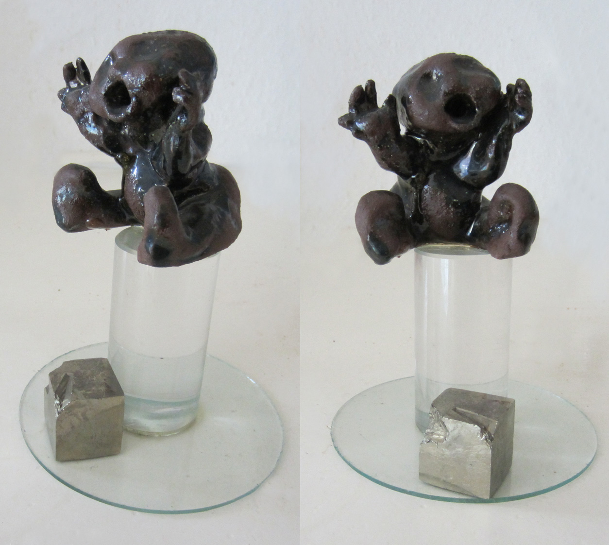 Fool's Gold – small sculpture by German artist Yolanda Feindura